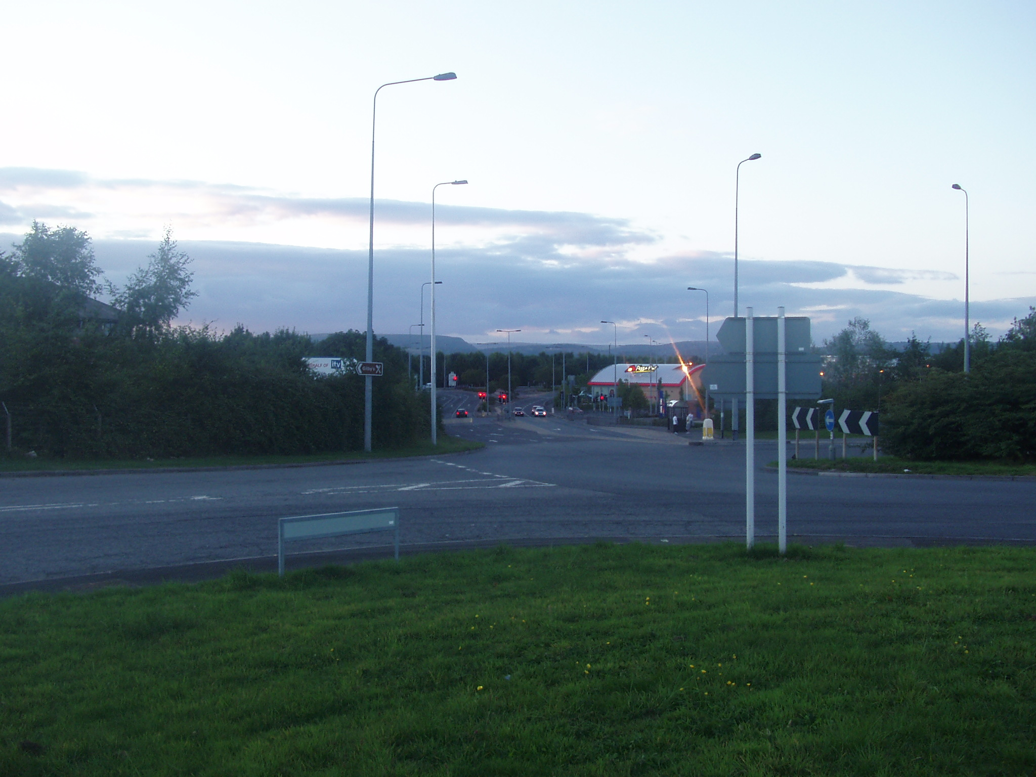 Culverhouse Cross, suburb of Cardiff, Wales, UK